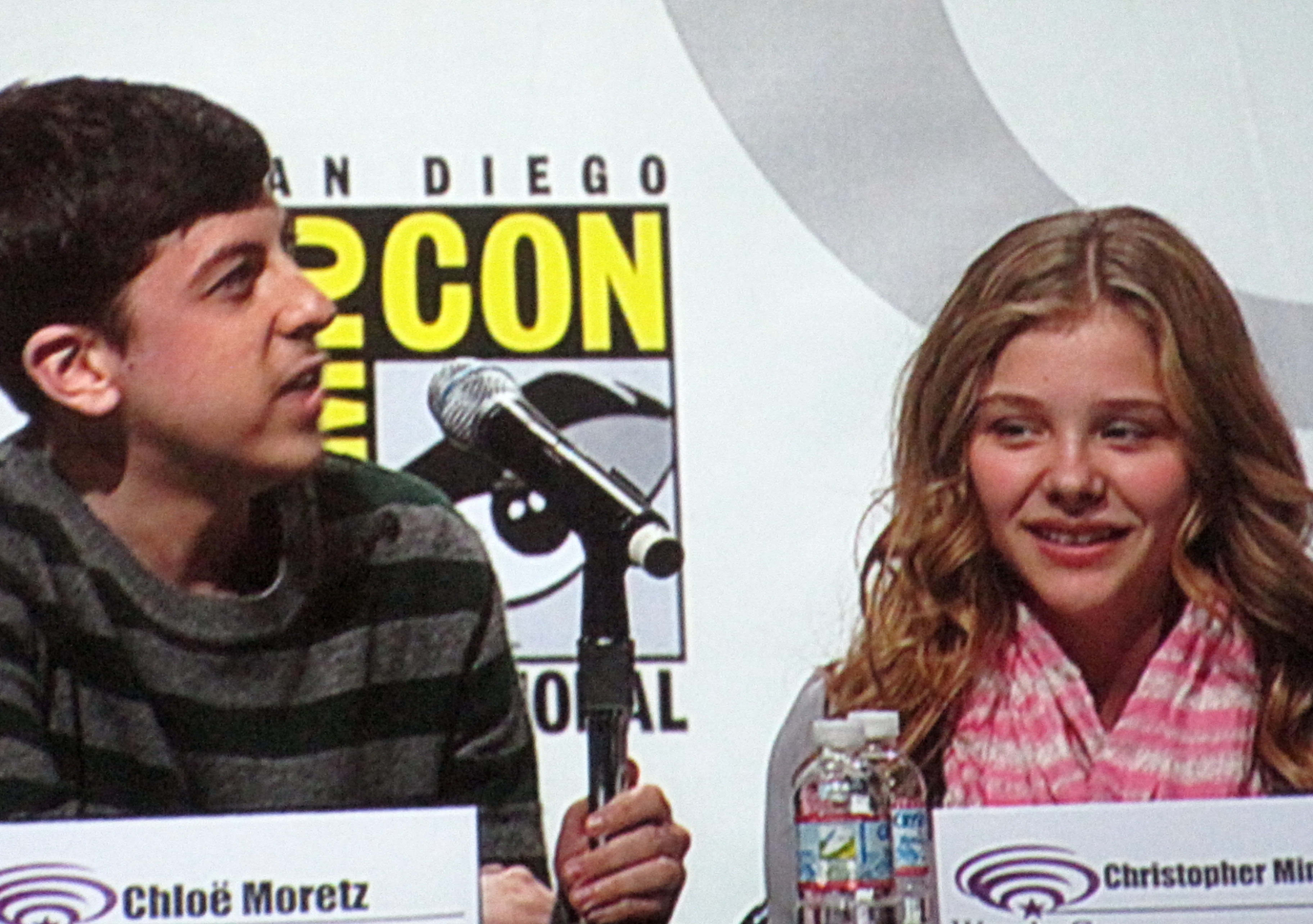 Christopher Mintz-Plasse and Chloë Grace Moretz participating in the Kick-Ass film panel at WonderCon 2010.